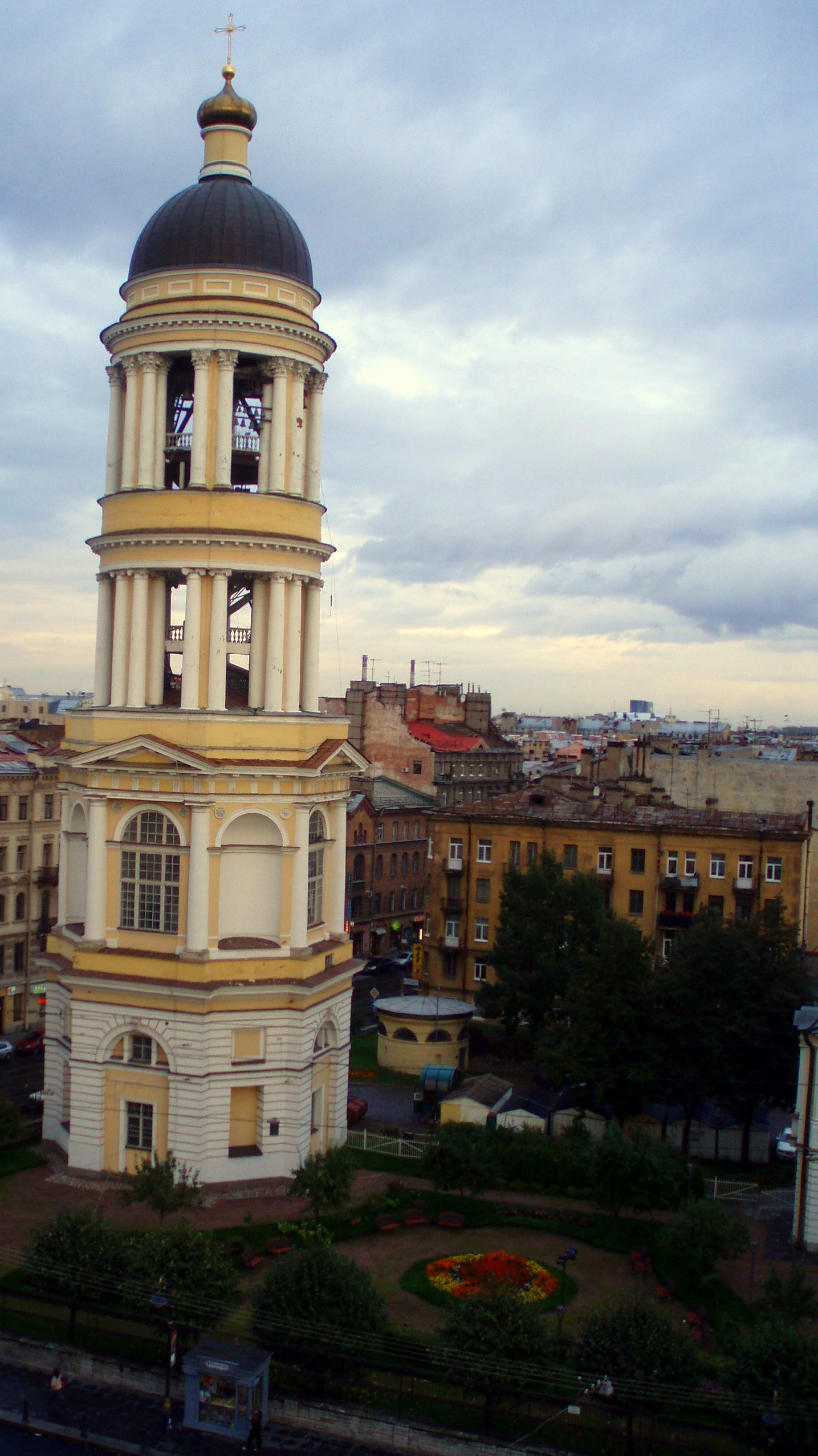 Vladimirskaya Church belfry in St Petersburg